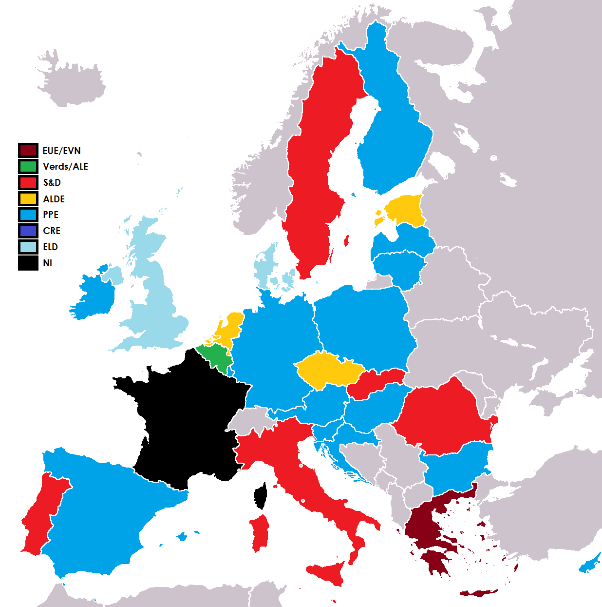 Map showing the European affiliation of the most voted party in each member state of the EU in the 2014 European Parliament election.